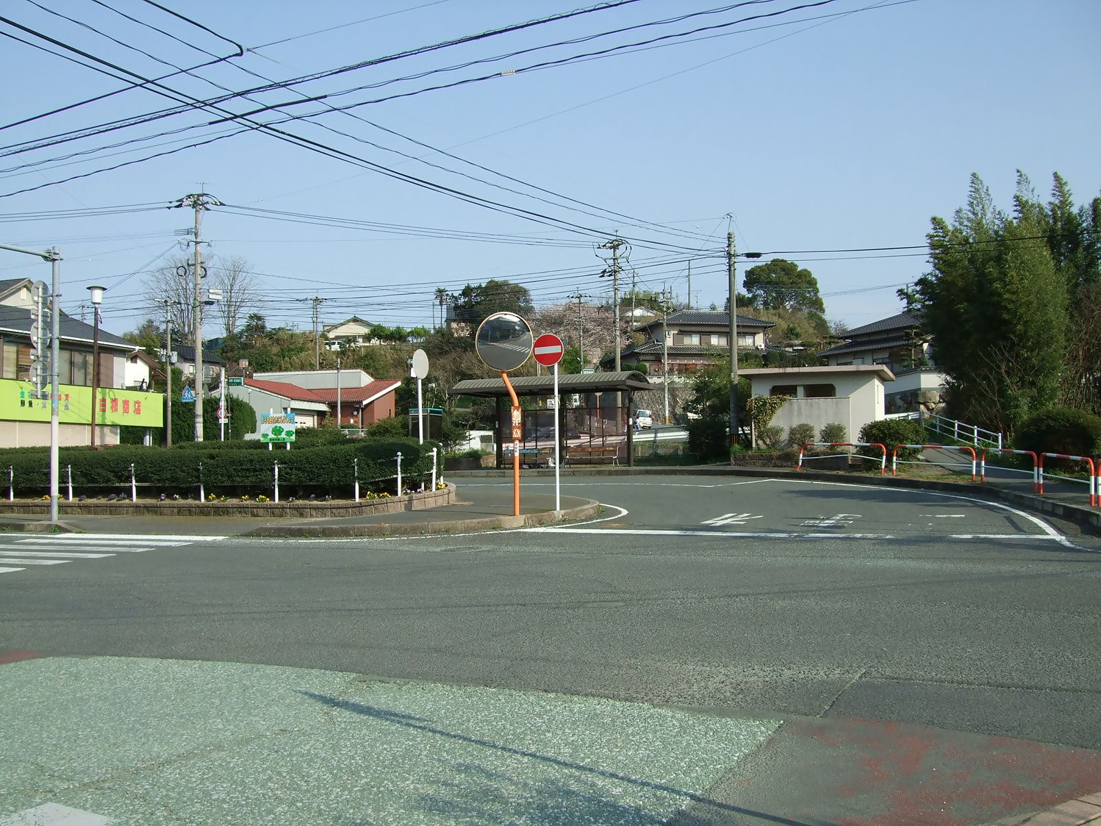 The ruin of Chikuzen-Miyada Station, Miyada Line.